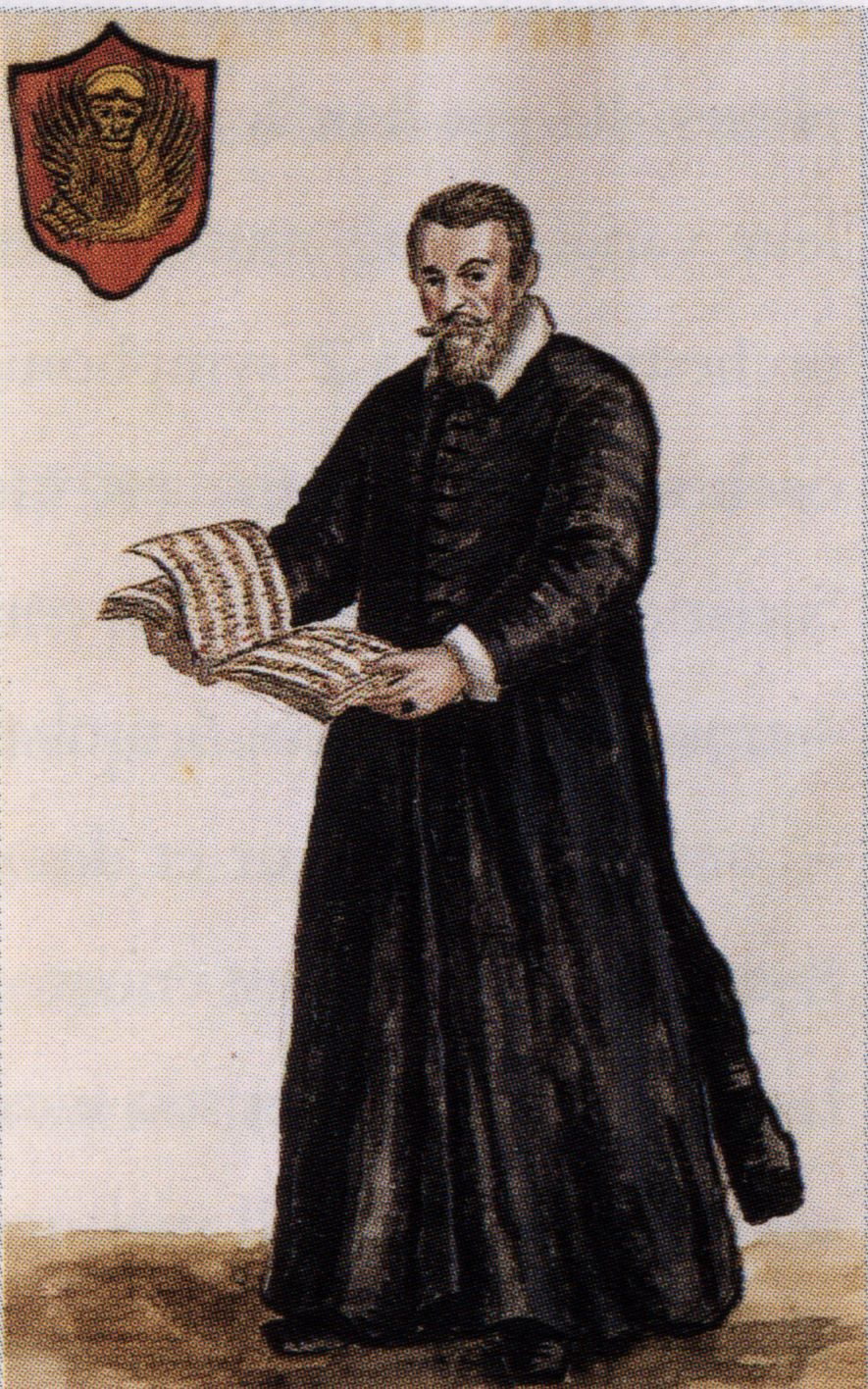 Claudio Monteverdi's portrait in the Museo Correr in Venice.